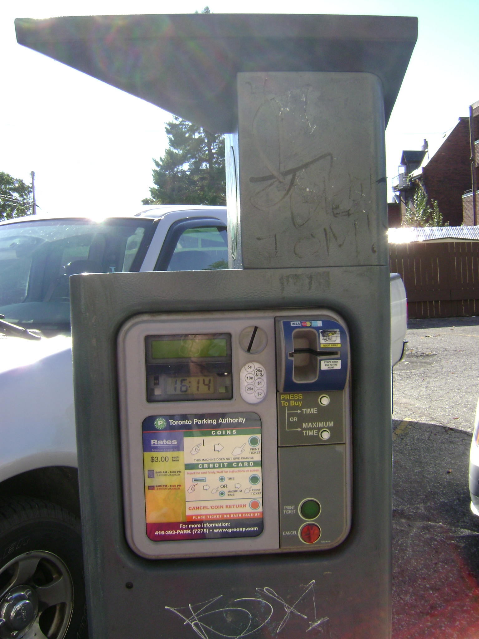 Toronto Parking Machine, in Ontario, Canada.